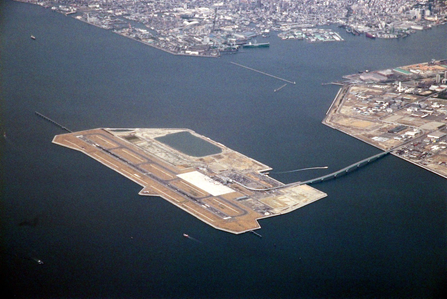 Kobe Airport in Kobe, Japan.